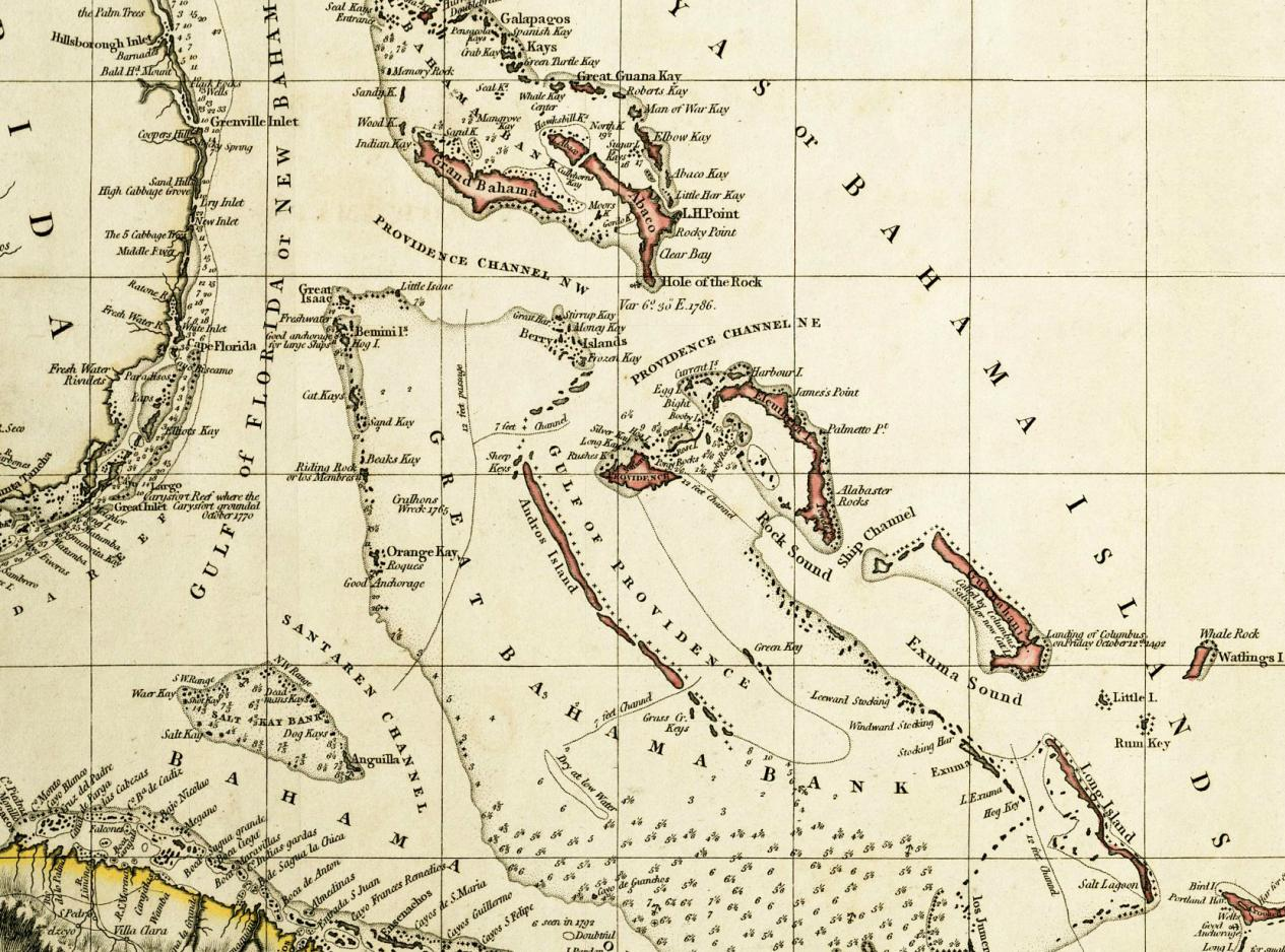 An extract of an 1803 map showing the Bahamian island of New Providence.